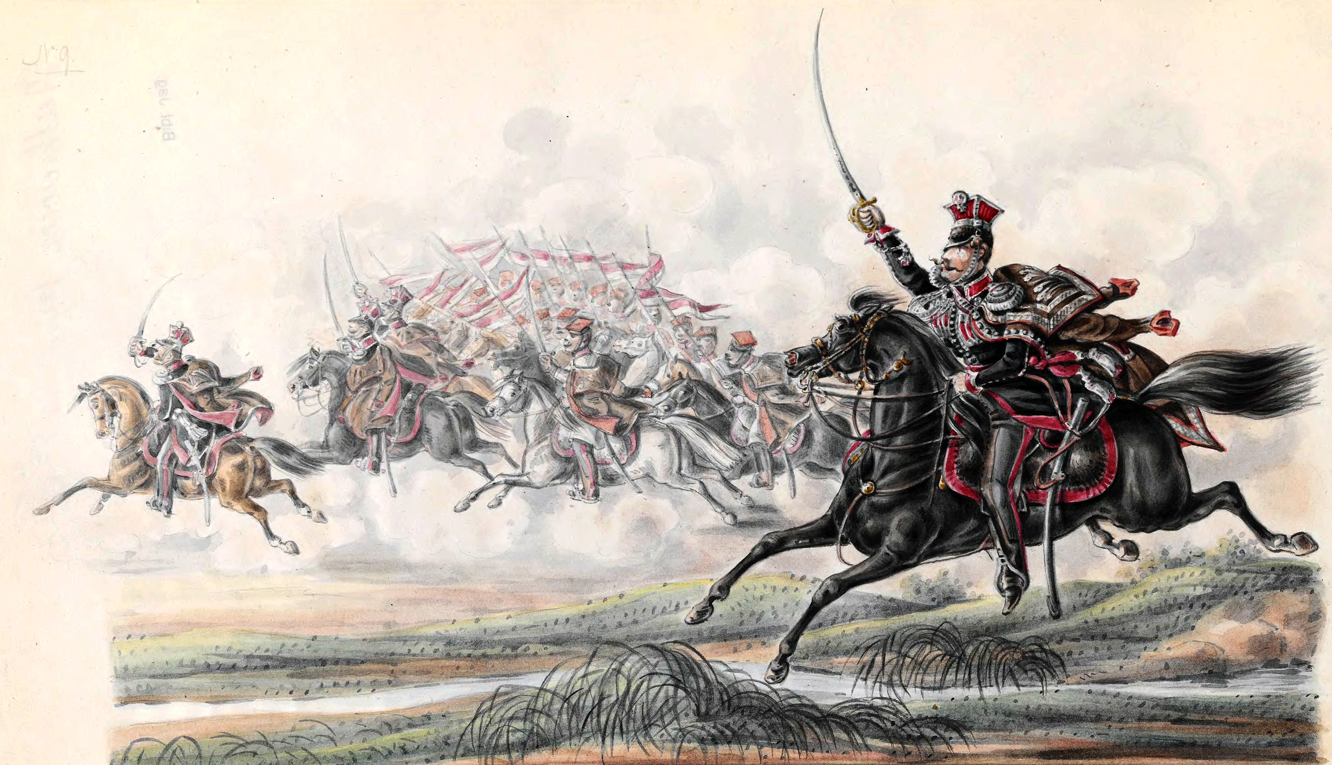 1st Regiment of Kraków Cavalry of November Uprising